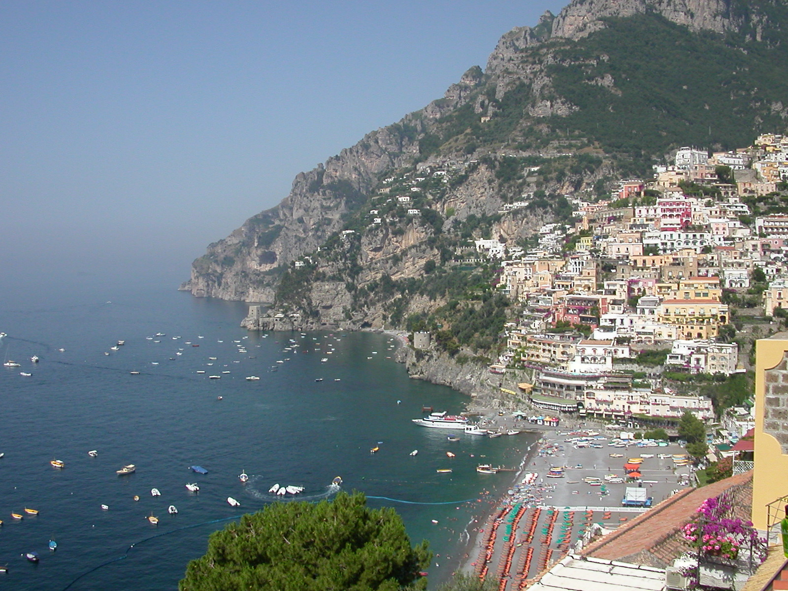 View from the roadway that leads down and into the town of Positano in Campania, Italy. Taken July 2004.